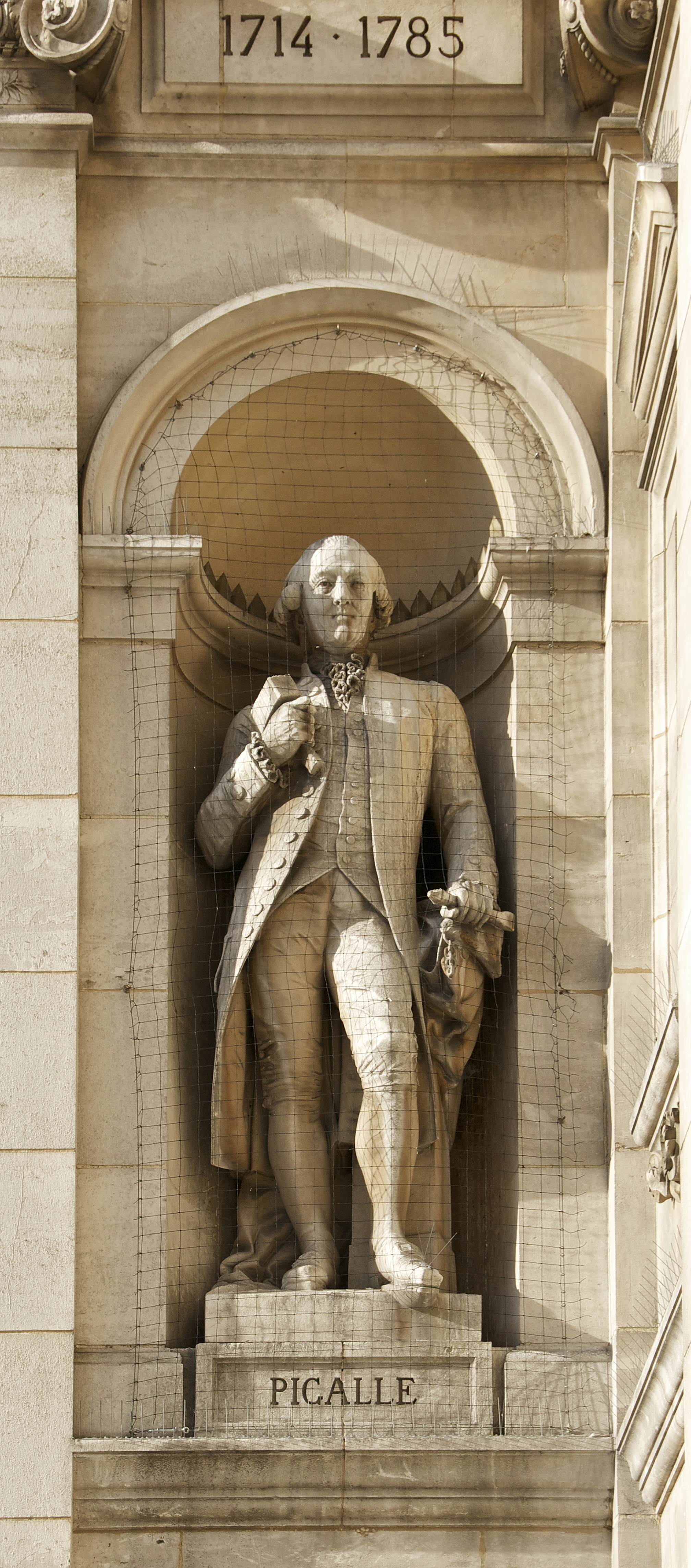 Statue of Jean-Baptiste Pigalle, Hôtel de Ville de Paris, France.